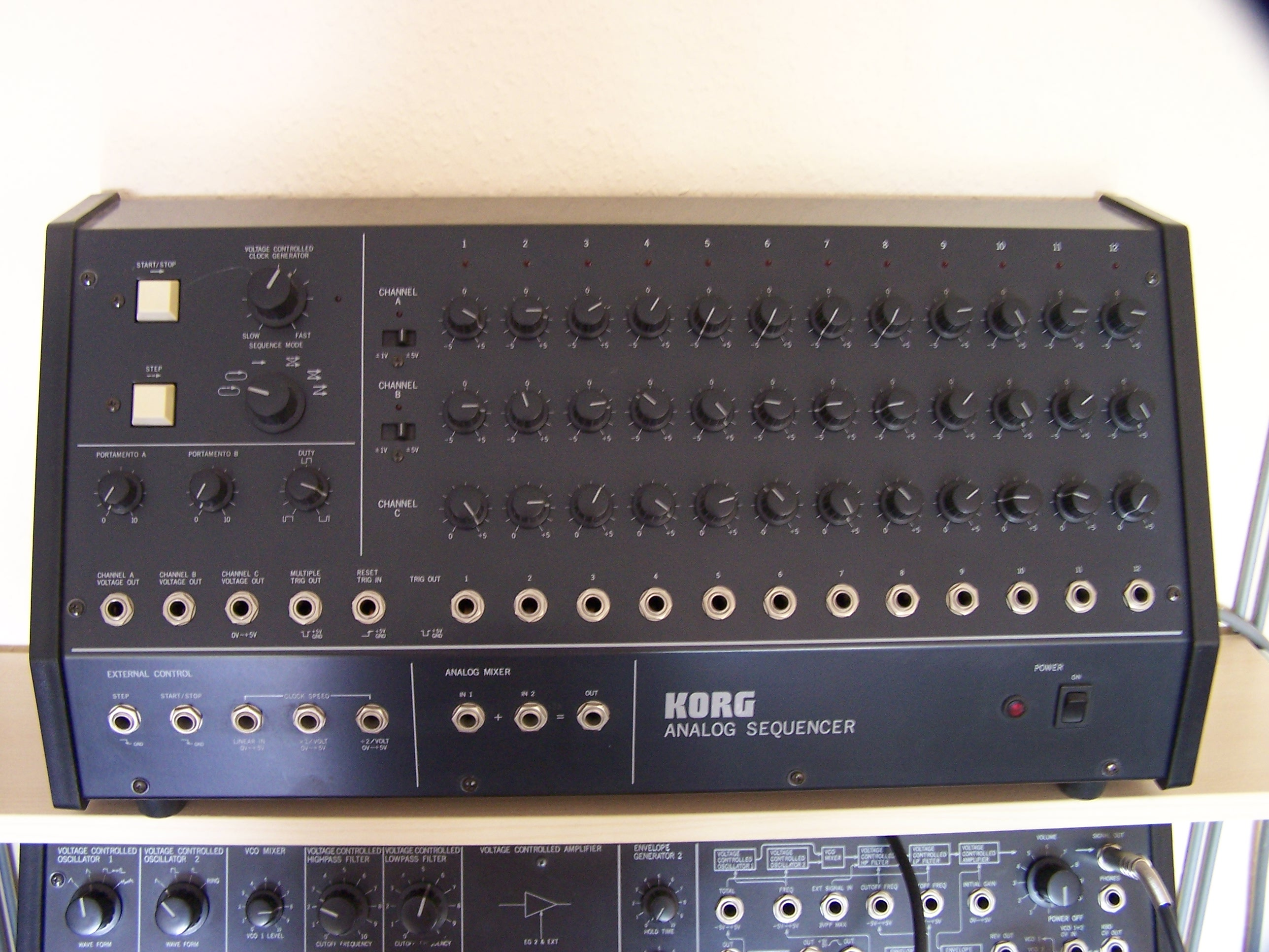 Korg SQ-10 Analog Sequencer, part of the Korg MS-Series